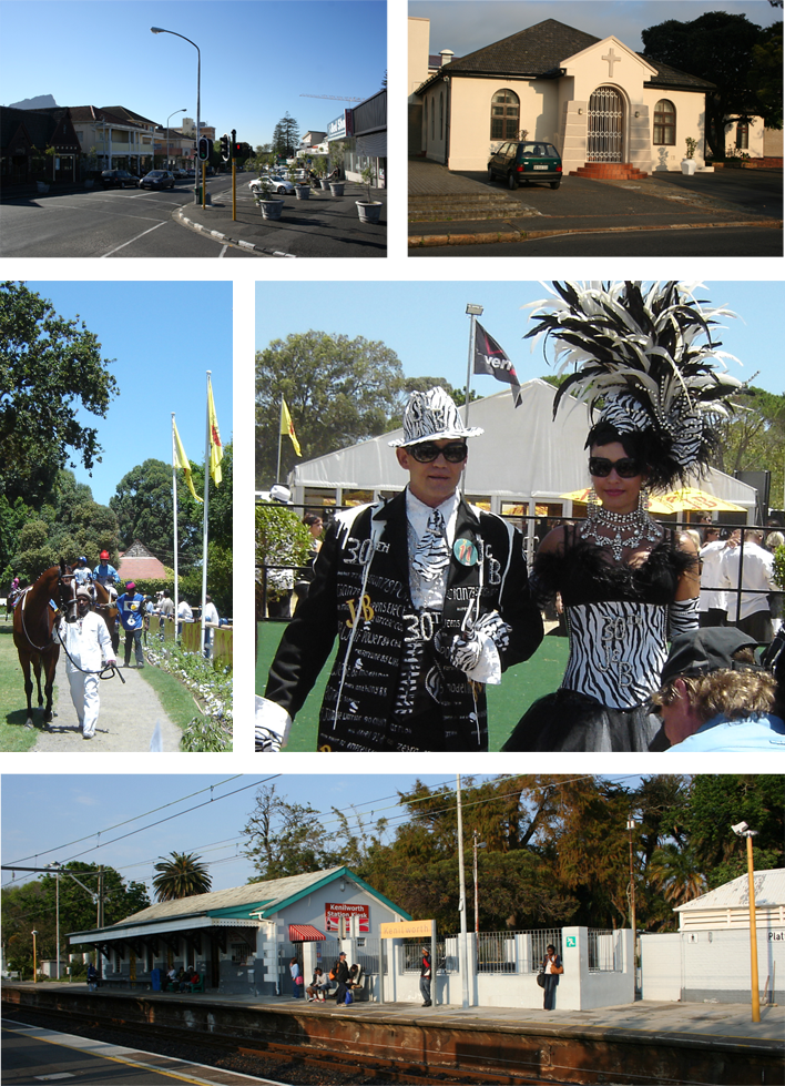 Top right: Saint James Church. Top left: A view down the section of Main Road that runs through Kenilworth. Centre: The old Cape Dutch style Kenilworth community center. Bottom: Kenilworth Train Station.